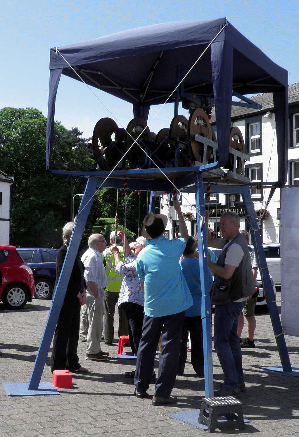 A mini ring is a portable ring of bells which demonstrates the English full-circle style of ring. The bells are very light and the ropes short, but the public can easily see how it works.